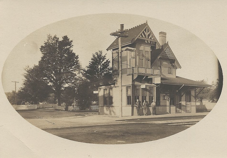 An early postcard of the original Sagamore, Massachusetts train station on Cape Cod.